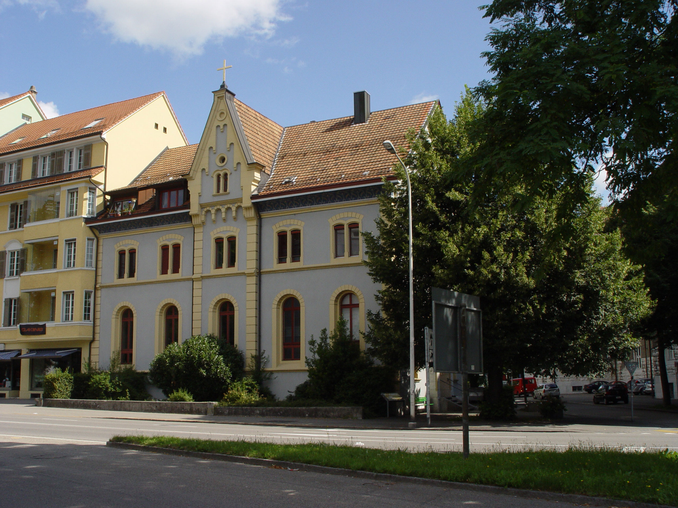 Church of Solothurn Eʋegbe: Evangelisch-methodistische Kirche